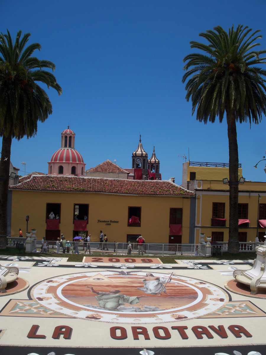 Tapiz de la Plaza del Ayuntamiento de La Orotava